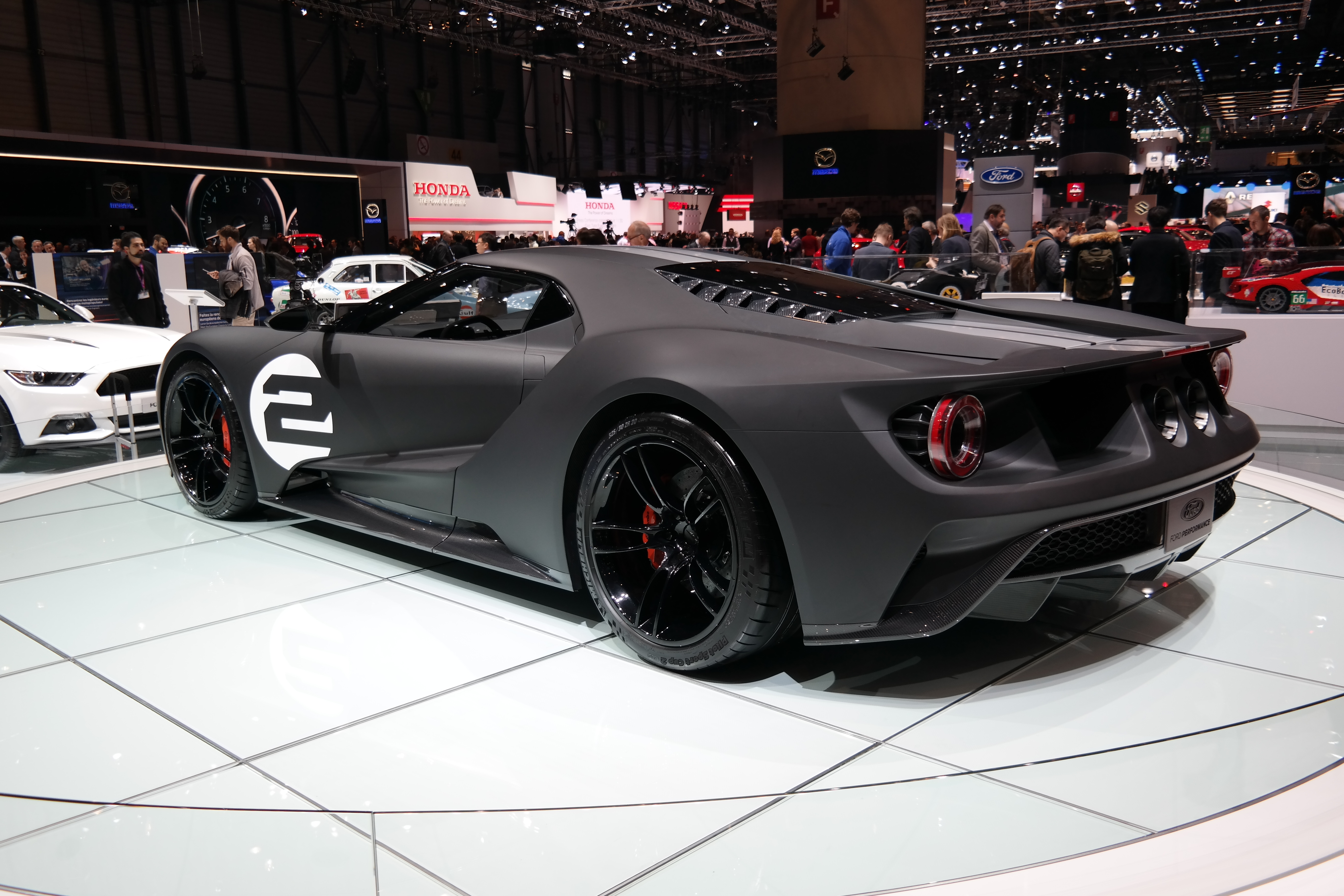 Geneva Motor Show 2017 (photo taken on the first press day)